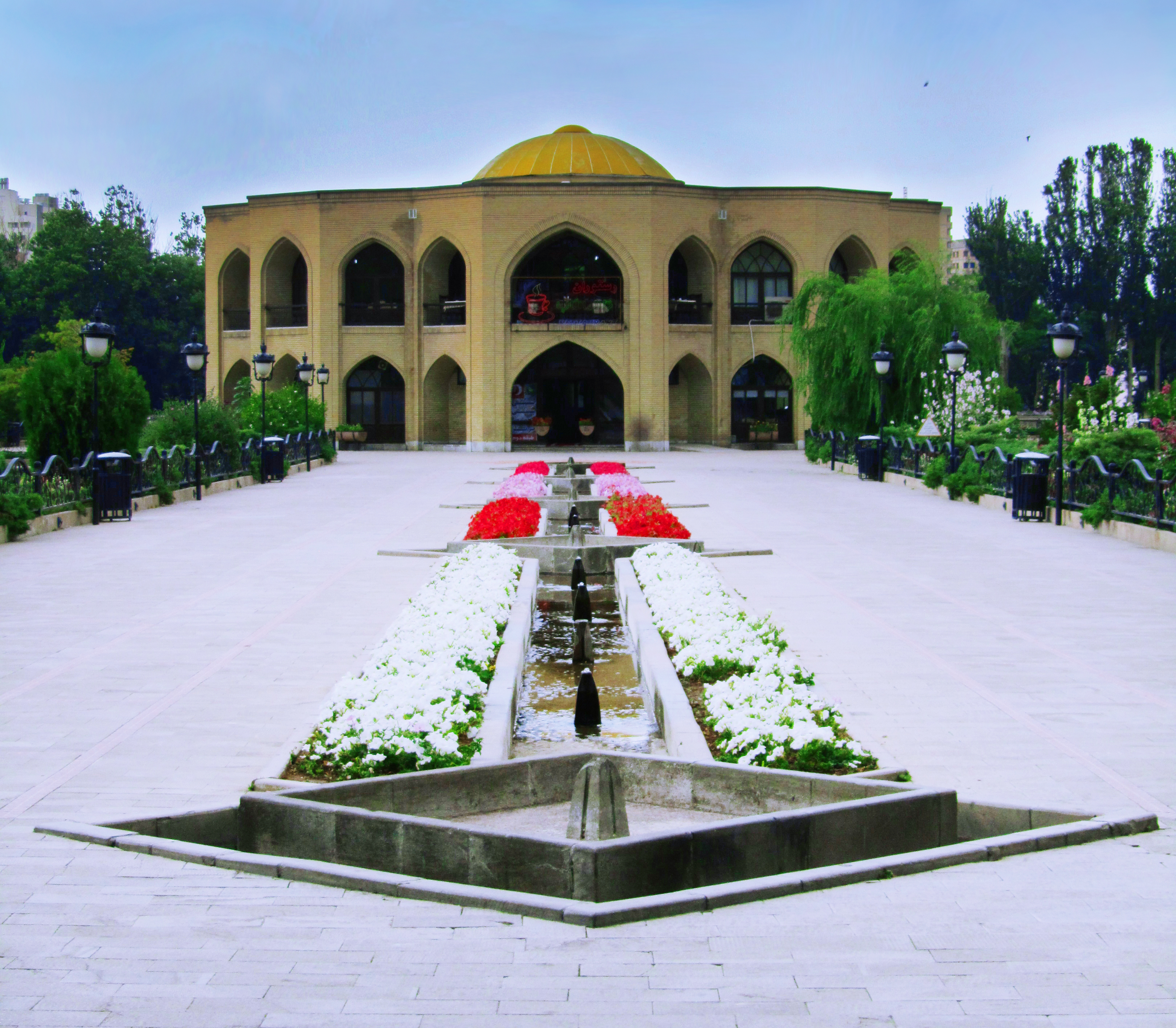 The front view of Elgölü